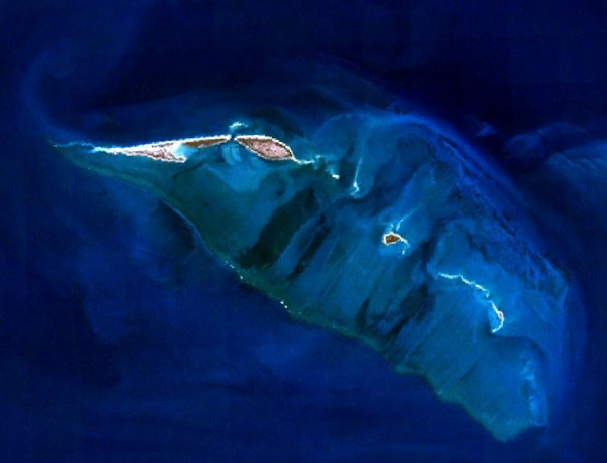 This is an image of the Lacepede Islands.